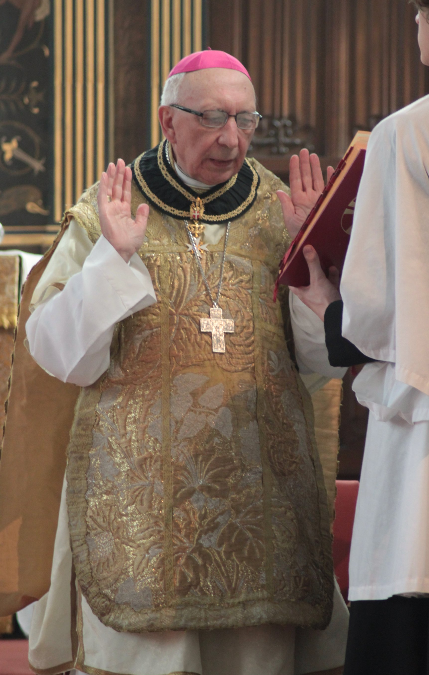 Archbishop Angelo Acerbi, Prelate of the Sovereign Order of Malta (Merton College Chapel, Oxford, UK)